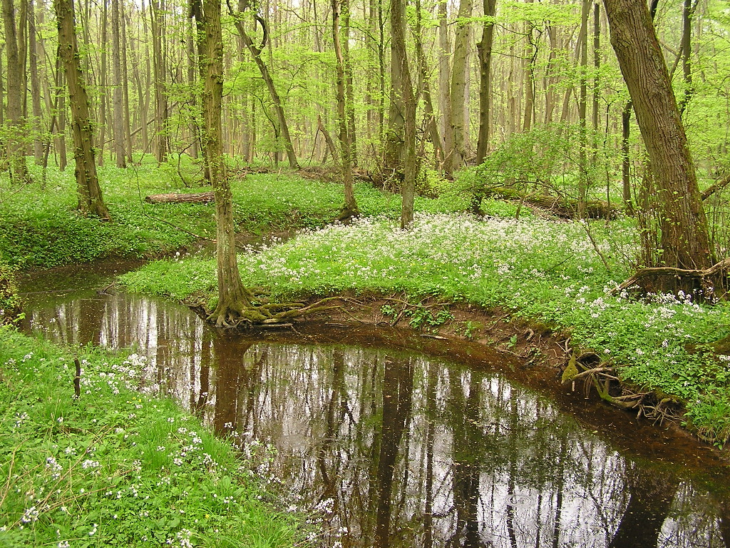 A fosse in the Bulau at the Kinzig with cardamine pratensis